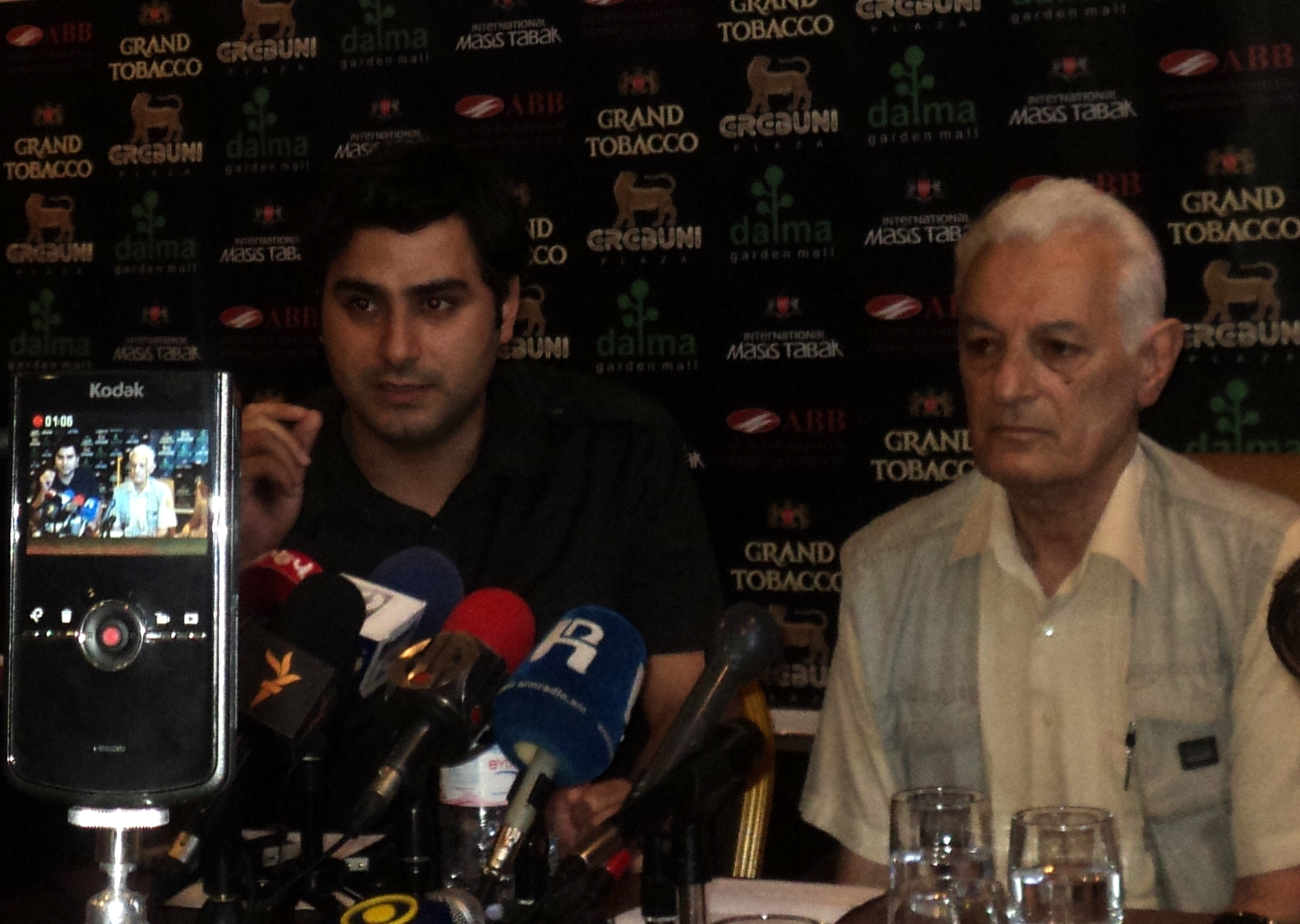 Sashour Kalashyan, during an interview